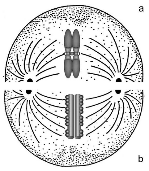 Monocentric (a) and holocentric chromosomes (b) differ for the presence of a localized centromere.